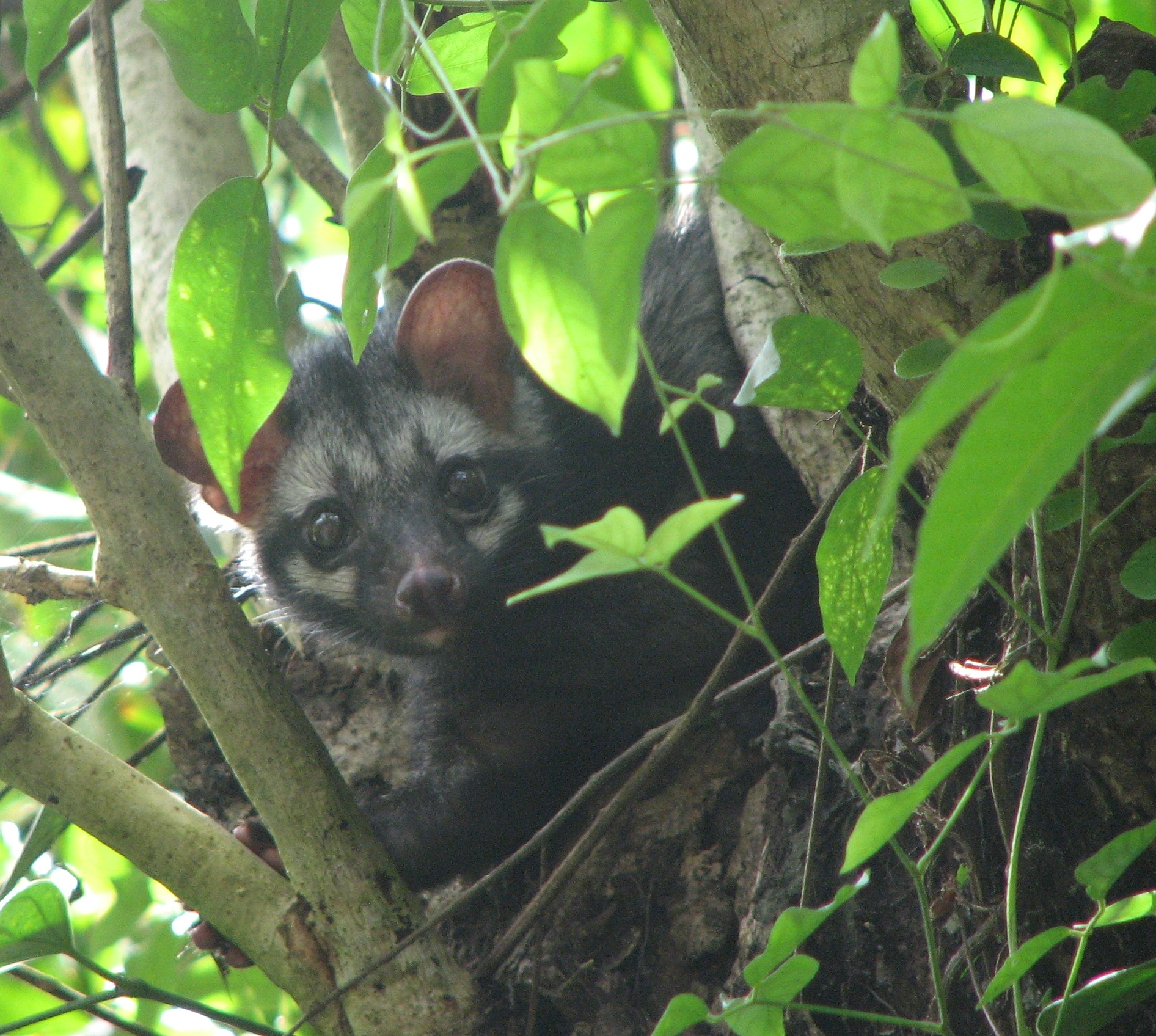 Asian Palm Civet or Common Palm civet over a tree. From Kerala, India